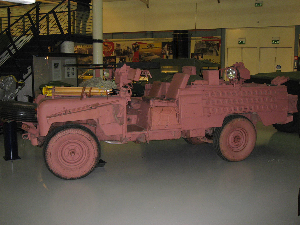 Army pink land rover .at the British motoring heritage museum gaydon .